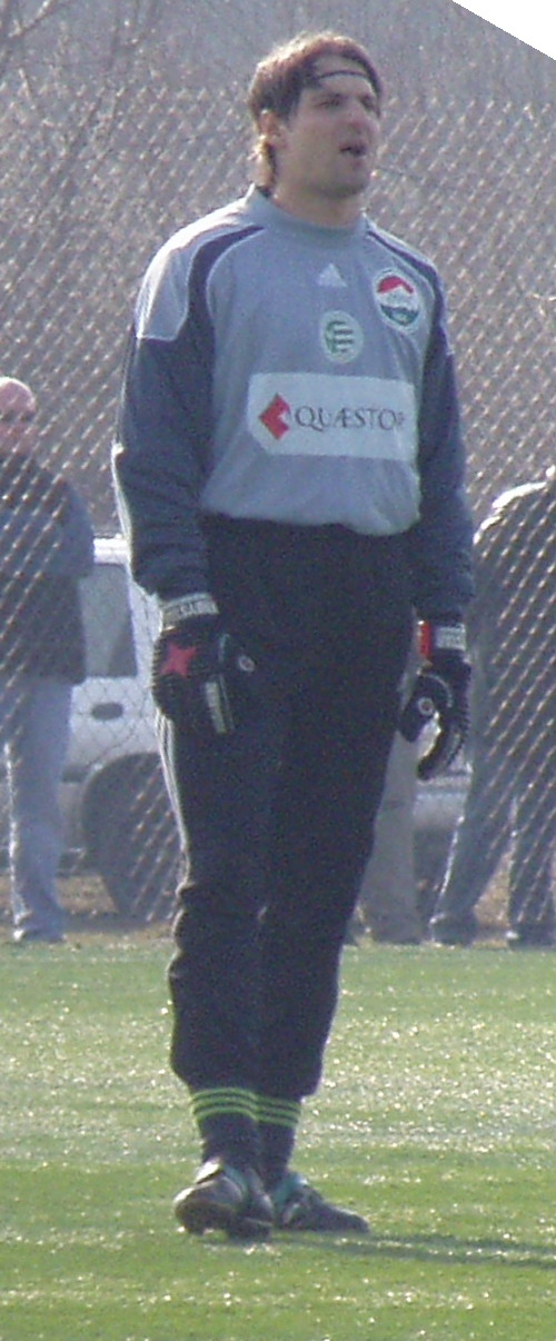 Zoltán Varga (born in 1977) Hungarian football player. Zalaegerszeg.